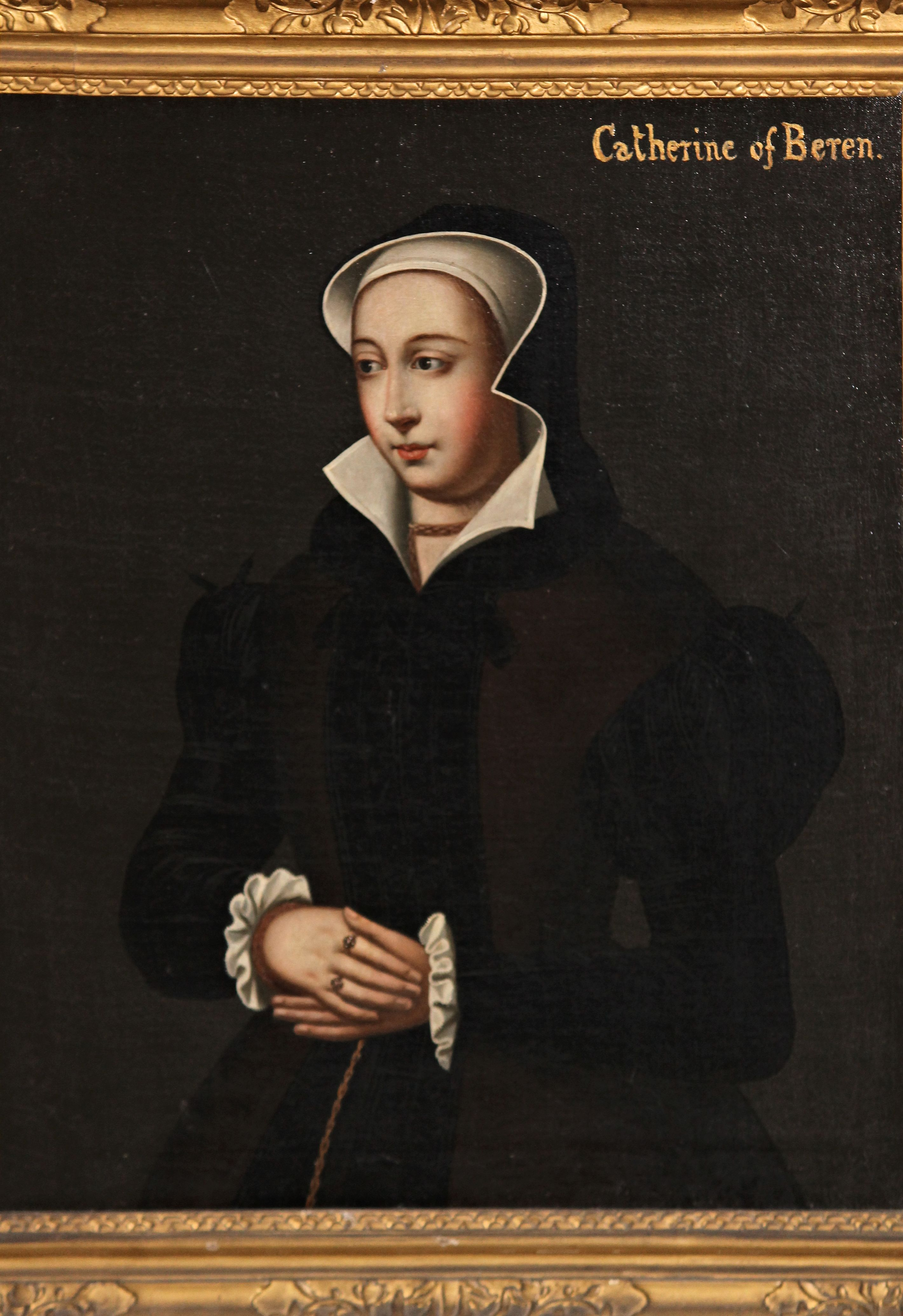 An oil painting of Catrin o Ferain (translated to "Katheryn of Berain" (sic) on English Wikipedia. Also called the 'Mother of Wales'. Painting at Castell y Waun (Chirk Castle).